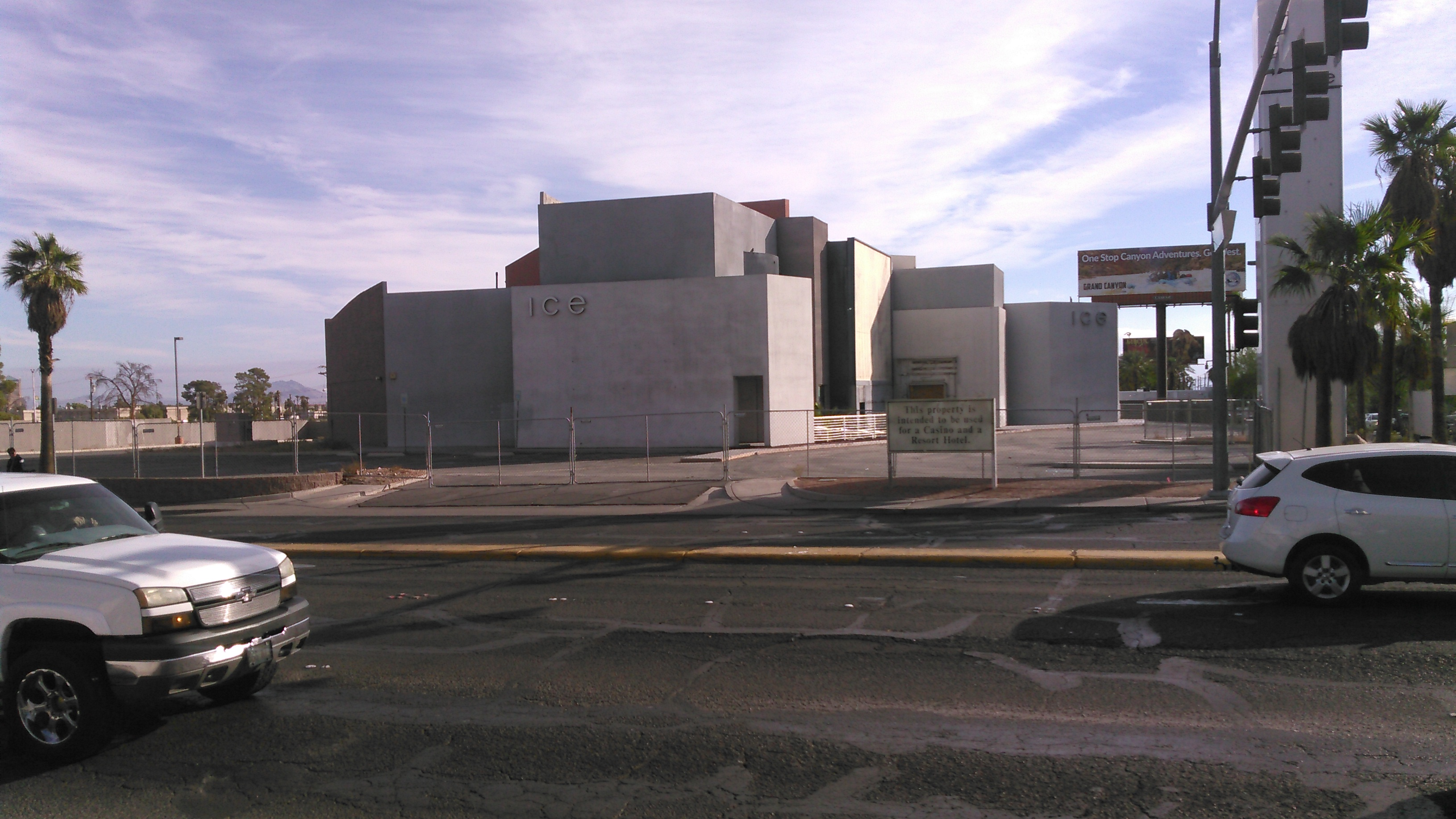 The former Ice Nightclub, the focus of the reality show "The Club," in 2017. Pictured from Koval Street/East Harmon Street looking East.